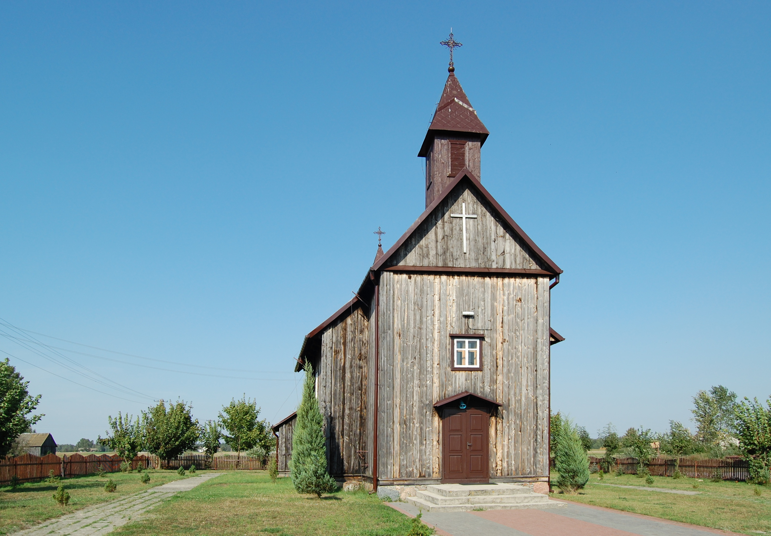 Church in Zakępie, Lublin Voivodeship, Poland. Built in 1693 originaly as Easter Catholic church, now a Roman Catholic church. Changed or rebuilt in 18th century and in 1987.